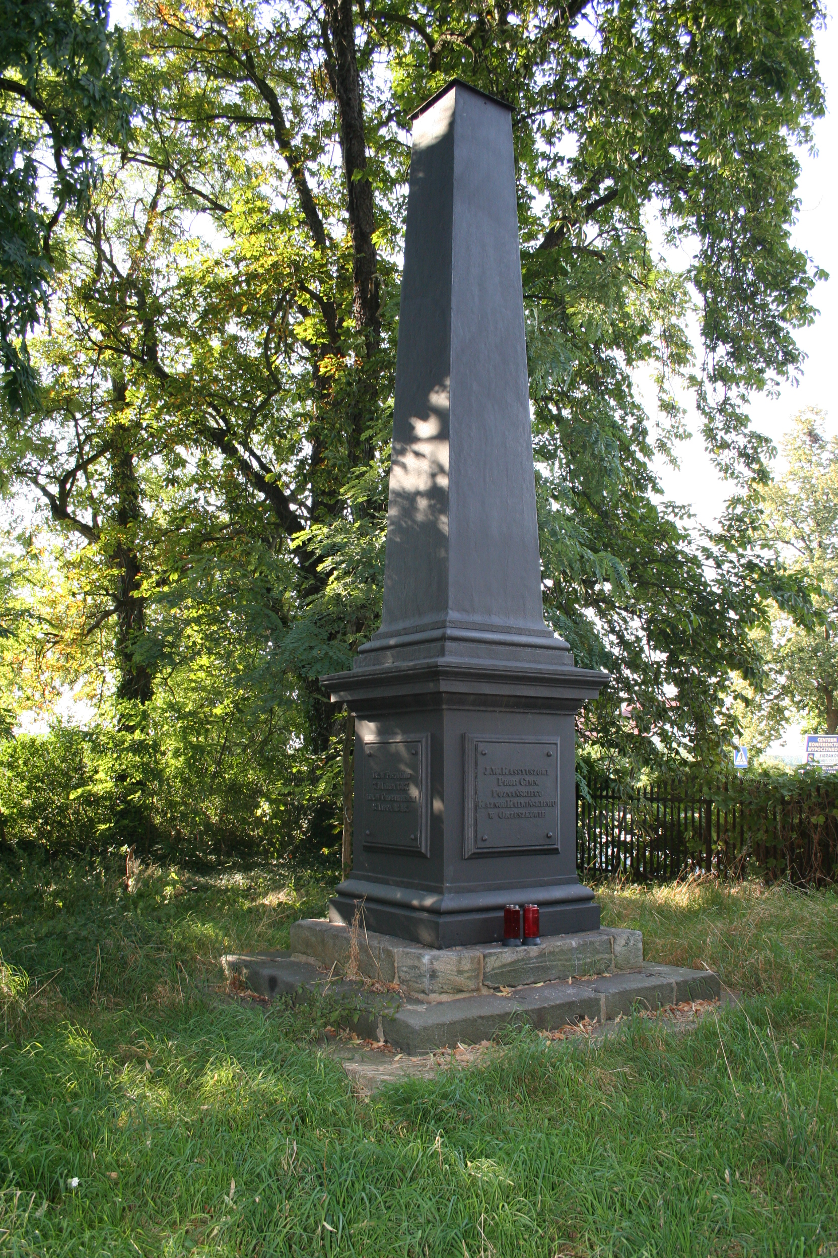 Calvinistic Cemetery in Orzeszkowo. Gravestone of J. W. Kassyusz